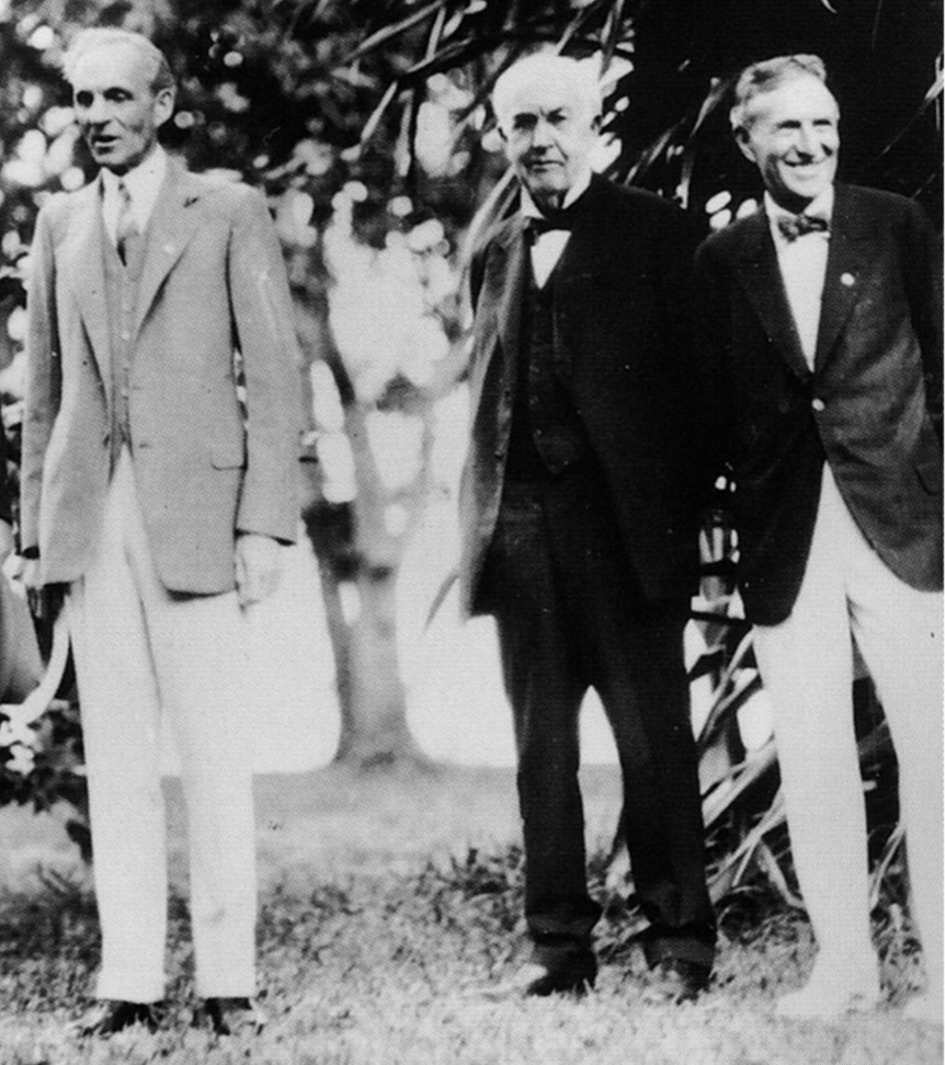 A photograph of Henry Ford, Thomas Alva Edison, and Harvey Samuel Firestone - the fathers of modernity.